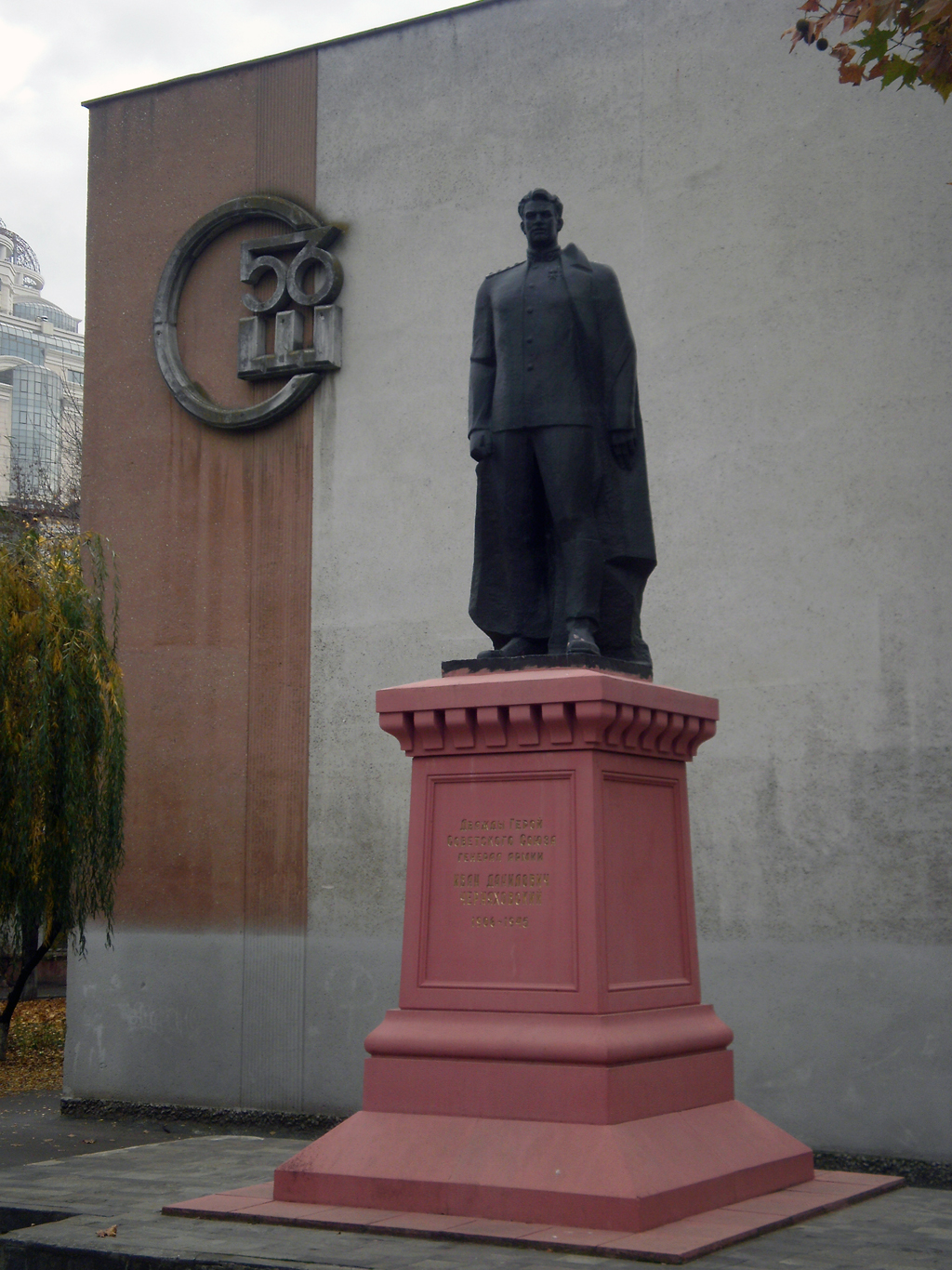 начало одноимённой улицы